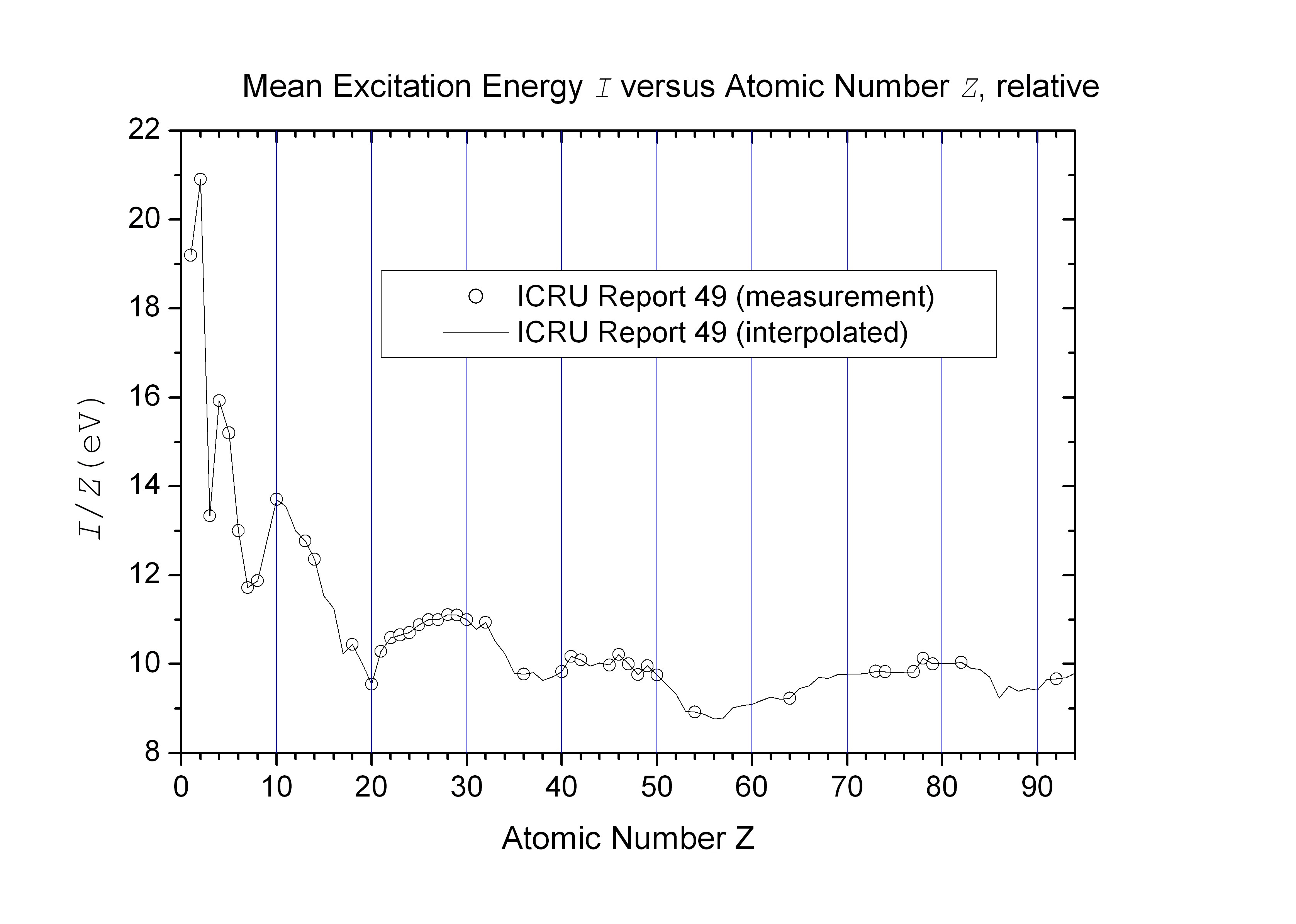 Mean Excitation Potential used in Bethe formula